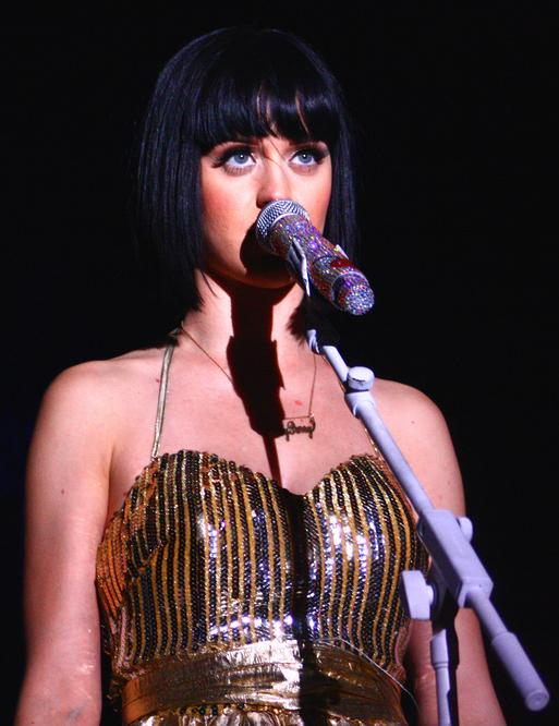 Image edited from live performance of Katy Perry in the "Clutch Cargo's, Michigan.